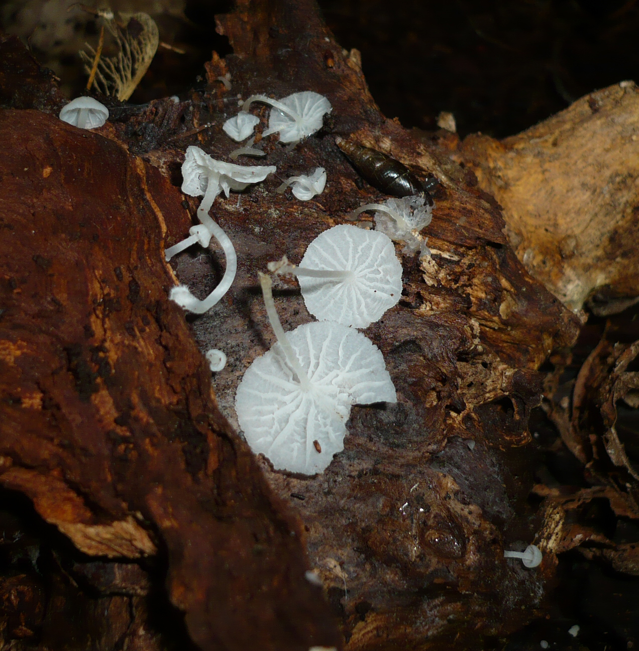 Fruit bodies of the fungus Delicatula integrella. Specimens photographed in Kogl bei Pilgersdorf, Bezirk Oberwart, Burgenland, Austria. Original image cropped by uploader.